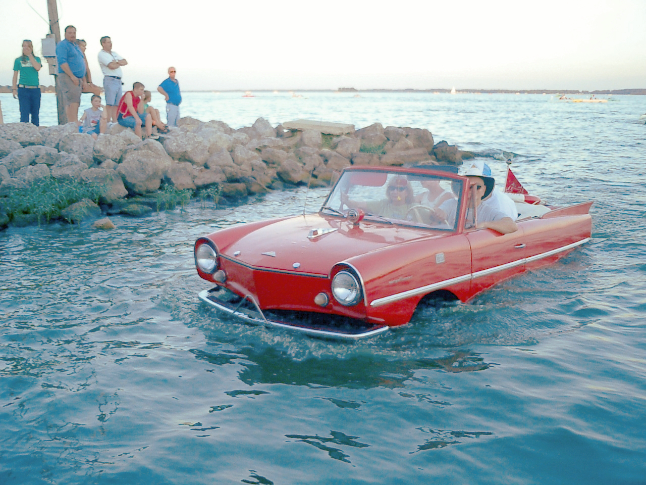 Red amphicar as seen at a local amphicar show.